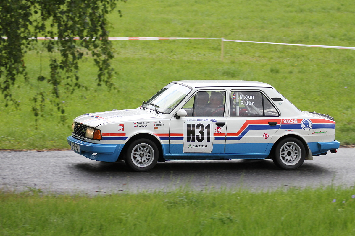 H31 Miroslav Jun - Pavel Jun (CZE) - Škoda 130LA (de Luxe / Amateur) / group A / 1986